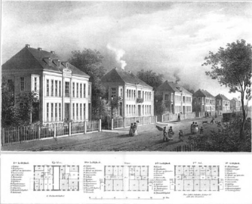 Unrealized plan for the east side of Valdemarsgade in Vesterbro, Copenhagen, Denmark. he lithography is in the holdings of the Museum of Copenhagen.